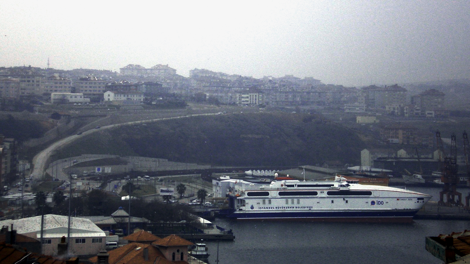 Scenery photo of Bandirma